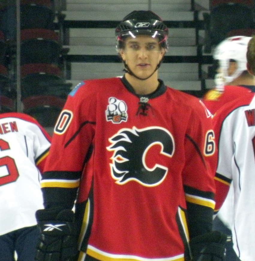 Calgary Flames prospect Mikael Backlund during warm-up prior to a National Hockey League exhibition game against the Florida Panthers, in Calgary.